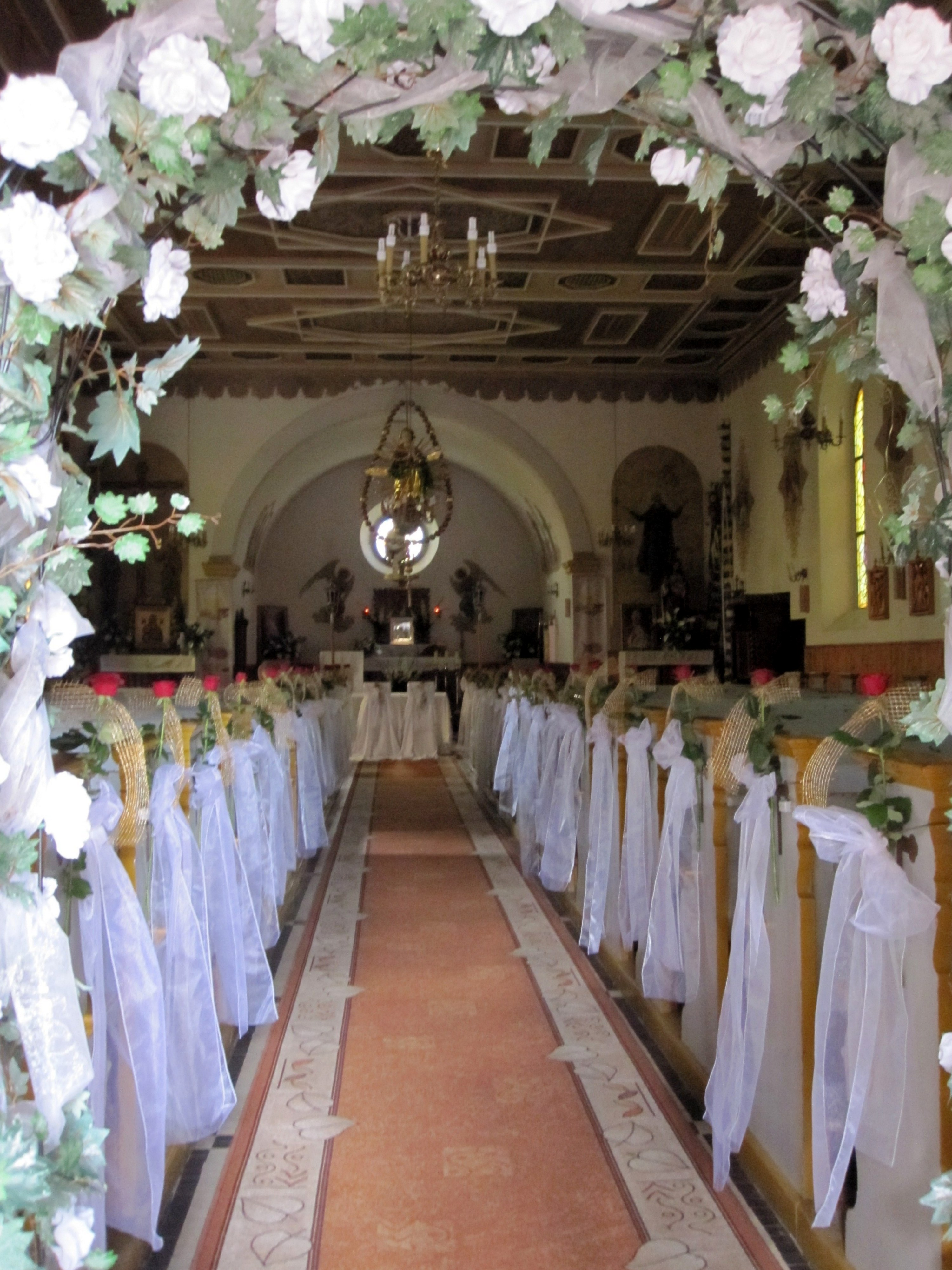 Saint Andrew Bobola church in Świętajno